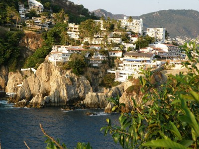 El Mirador como lo dejo Carlos Barnard Maldonado